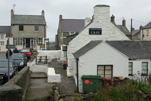 Aberdaron Seen from the bridge over the Afon Daron, in the foreground is Y Gegin Fawr (The Big Kitchen), a cafe nowadays but originally built in the 14th century as a resting place for pilgrims heading to Bardsey Island. A pilgrimage to Bardsey was apparently considered equivalent to one to Rome.